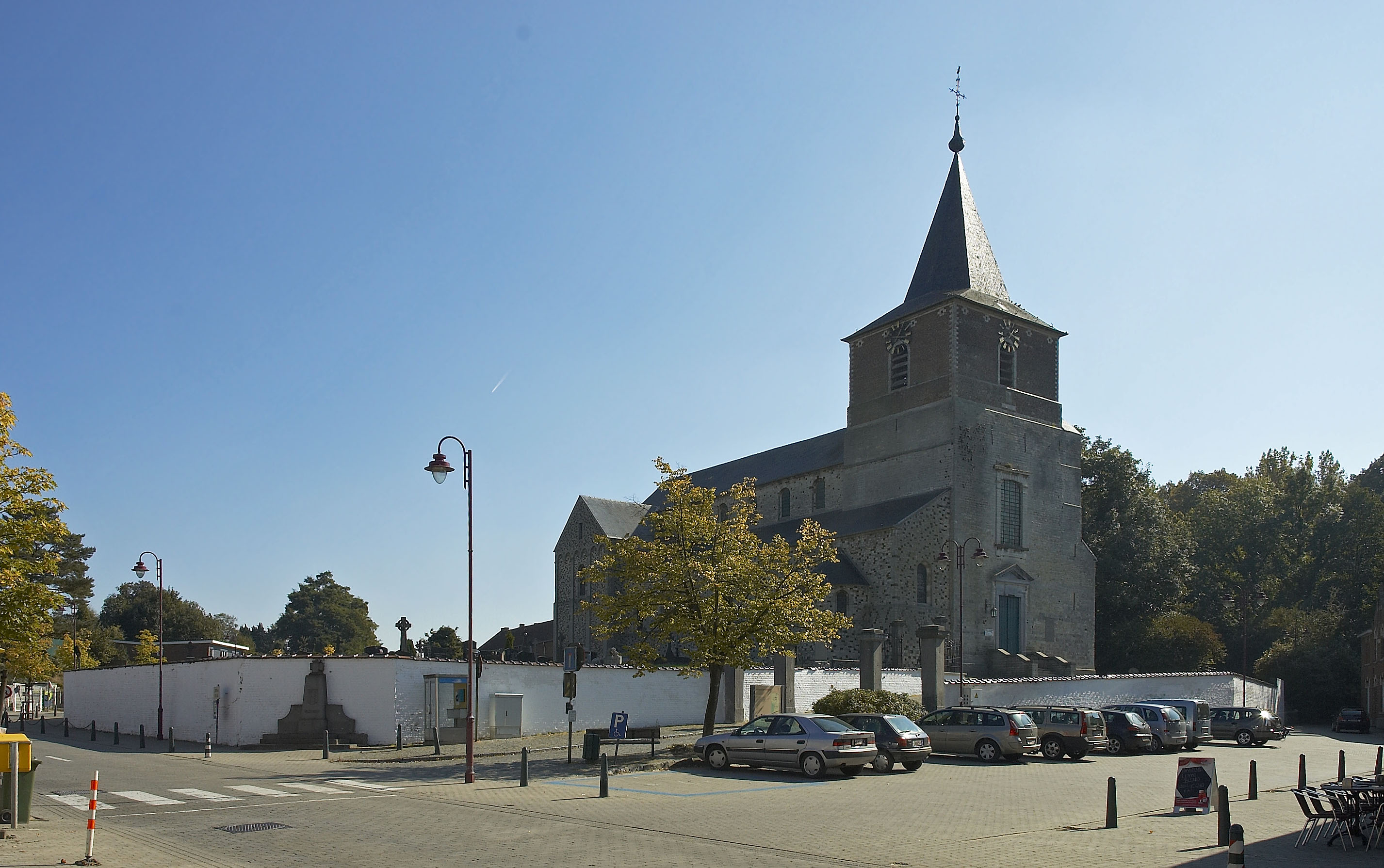 Church Saint Hilarius in Bierbeek, Belgium